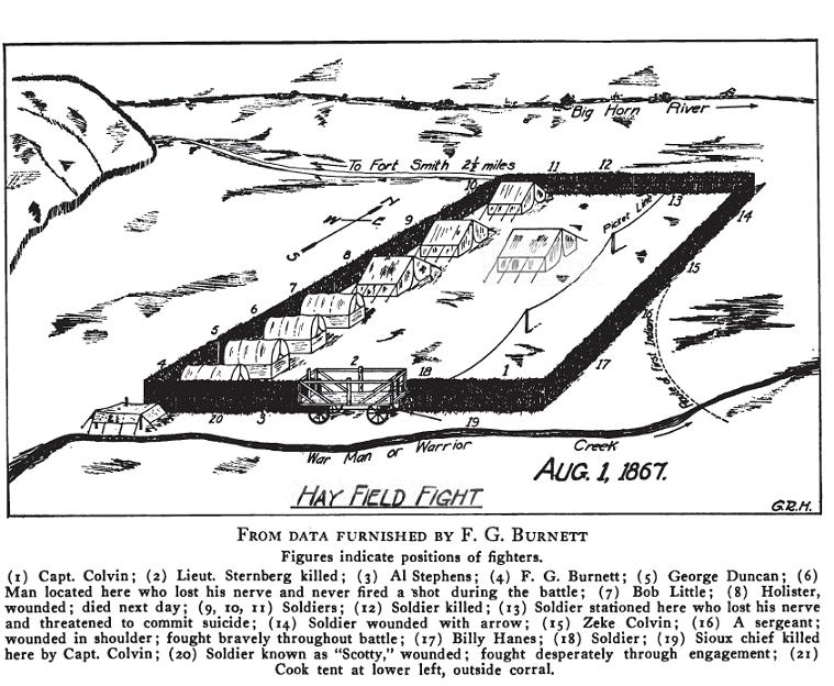 A map of the Hayfield Fight, August 1, 1867, Fort C. F. Smith, Montana